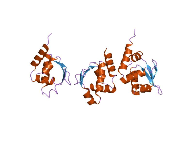 Cartoon representation of the molecular structure of protein registered with 2b0l code.